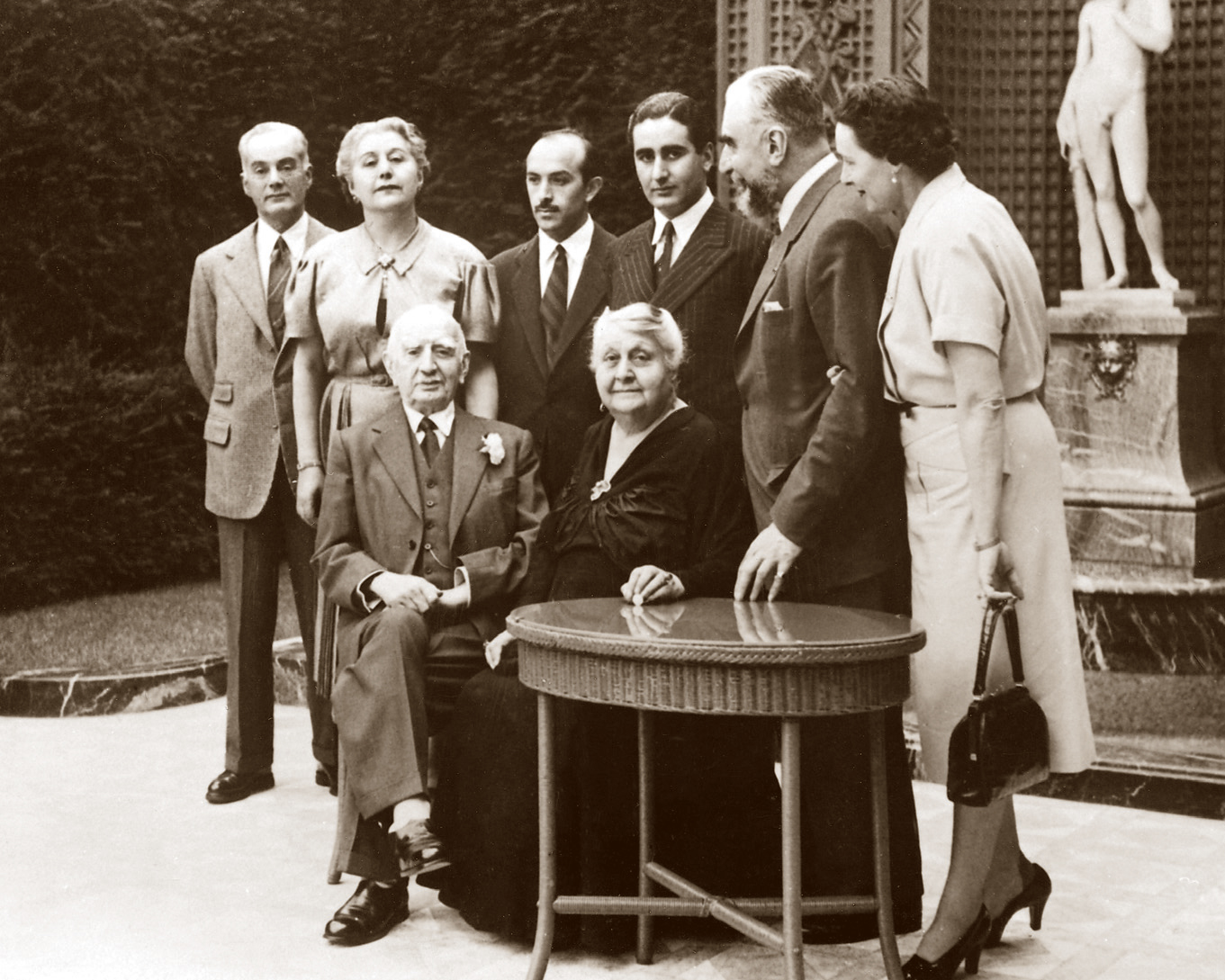 Calouste Gulbenkian and his family